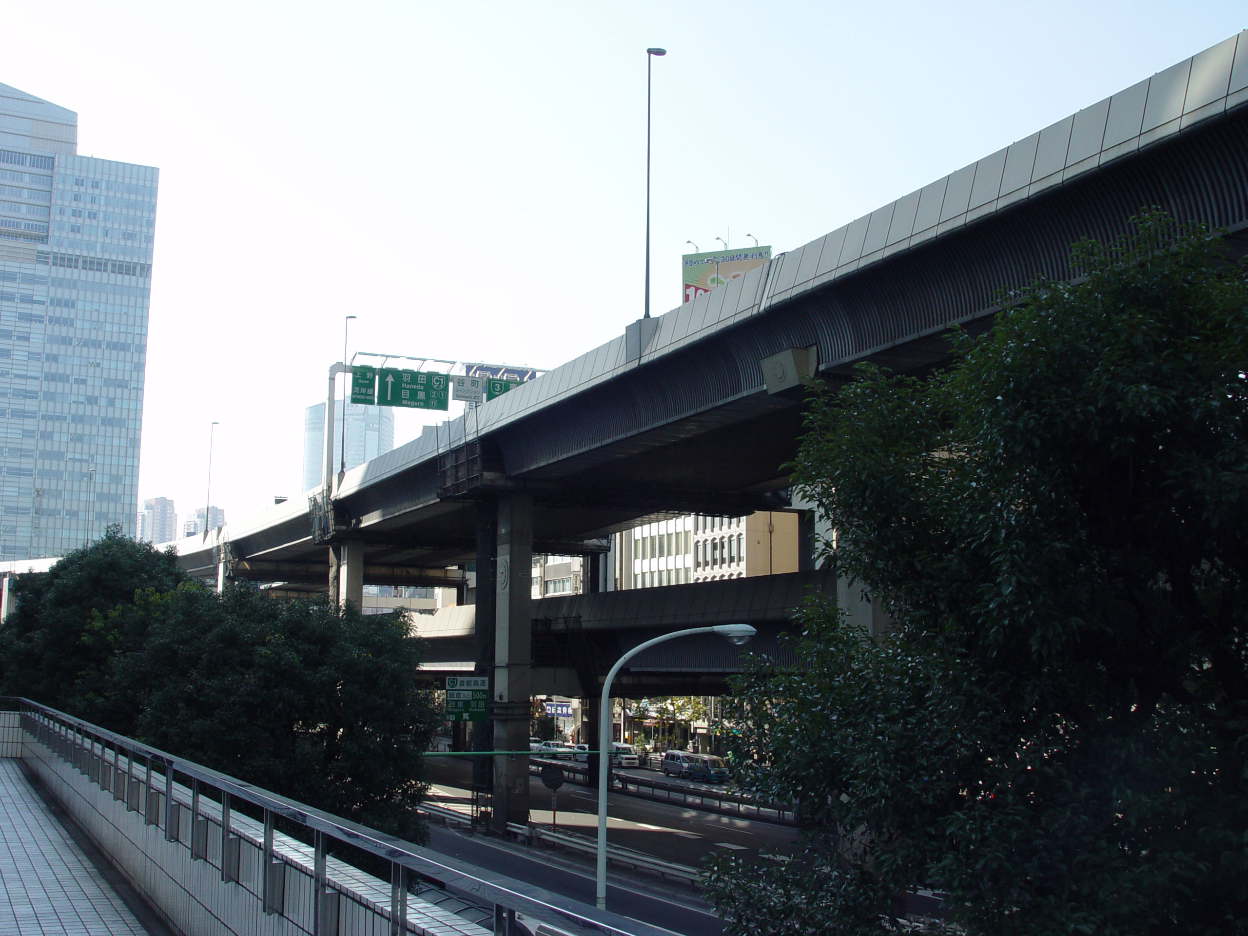 Tanimachi Junction, Tokyo, Japan